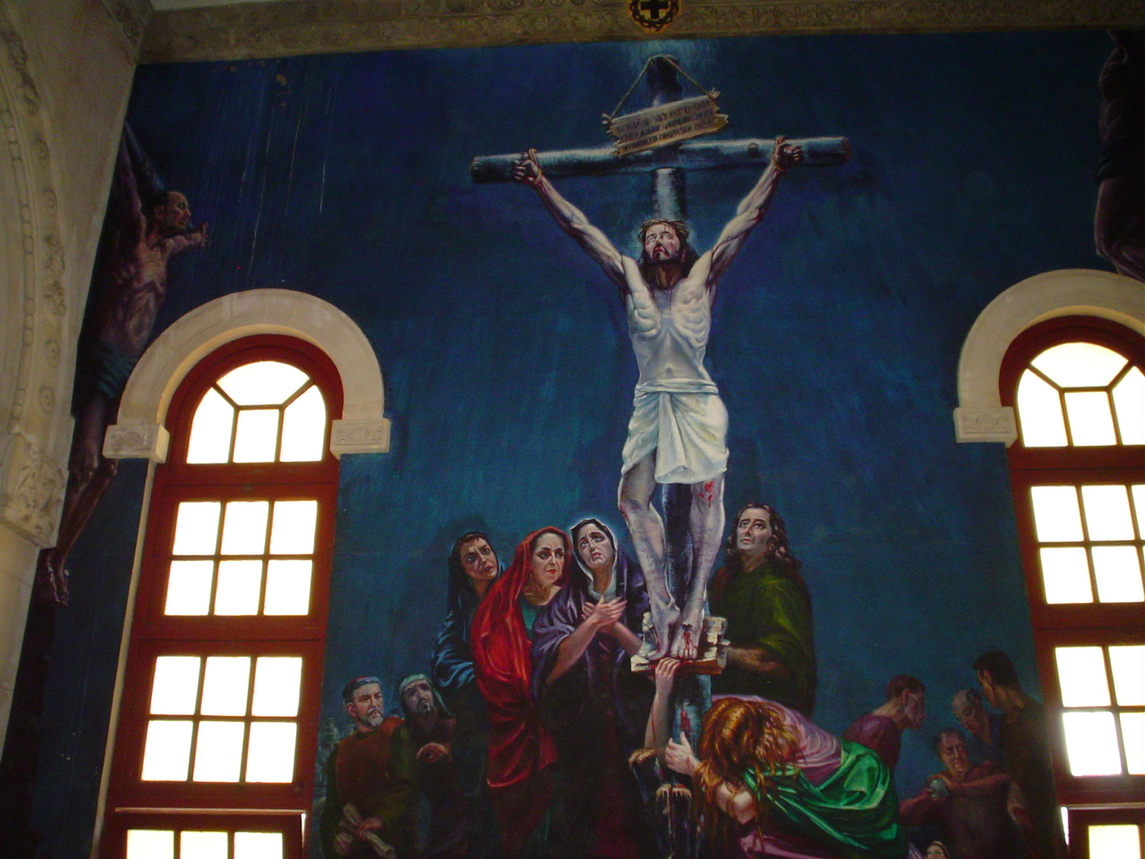 Crucifixion group in the Iglesia de Jesús de Miramar in Havana